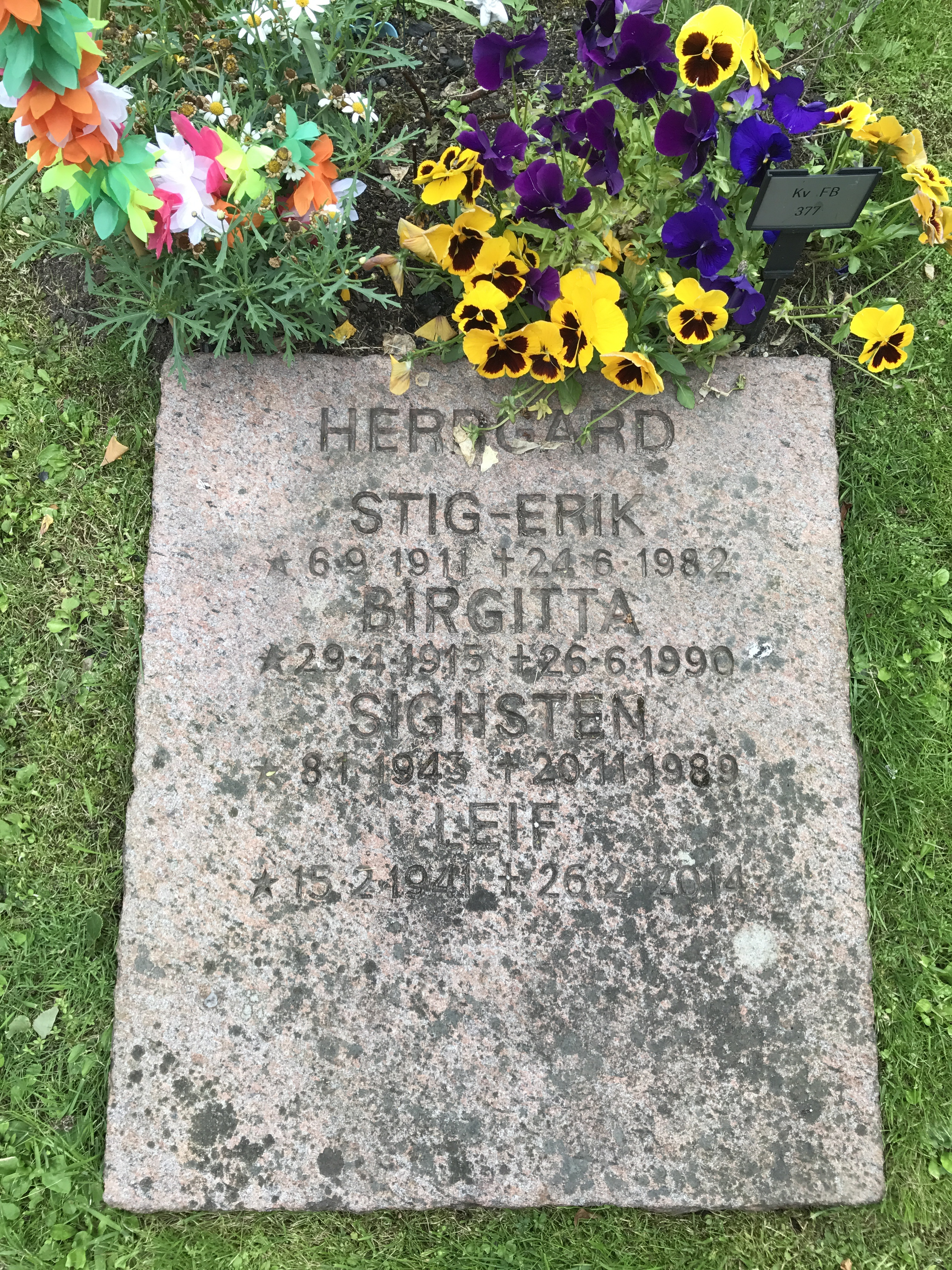 Bromma